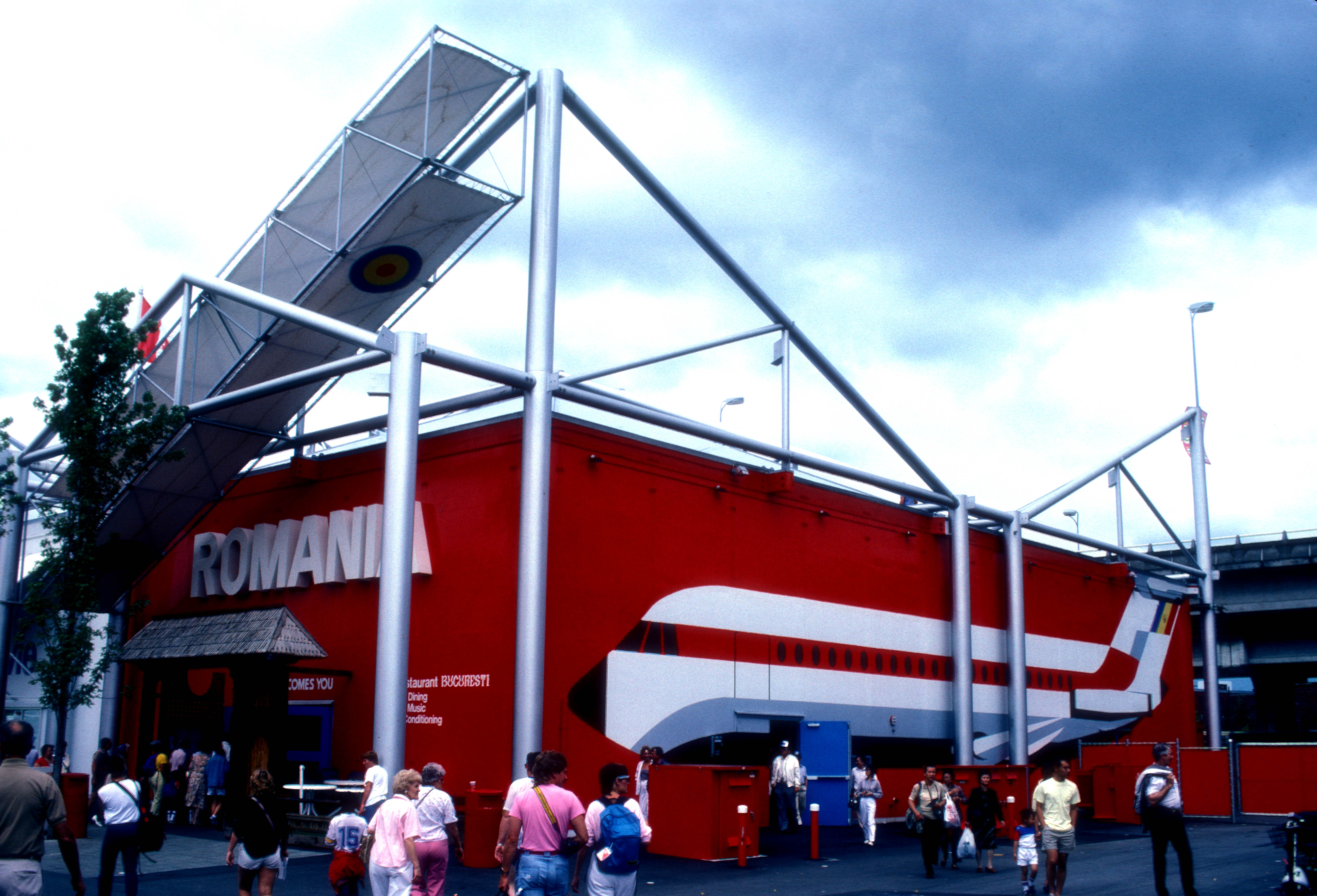 PAVILION FEATURE ROMANIAN ARTWORK AND MODELS AND PICTURES OF ROMANIAN INVENTORS